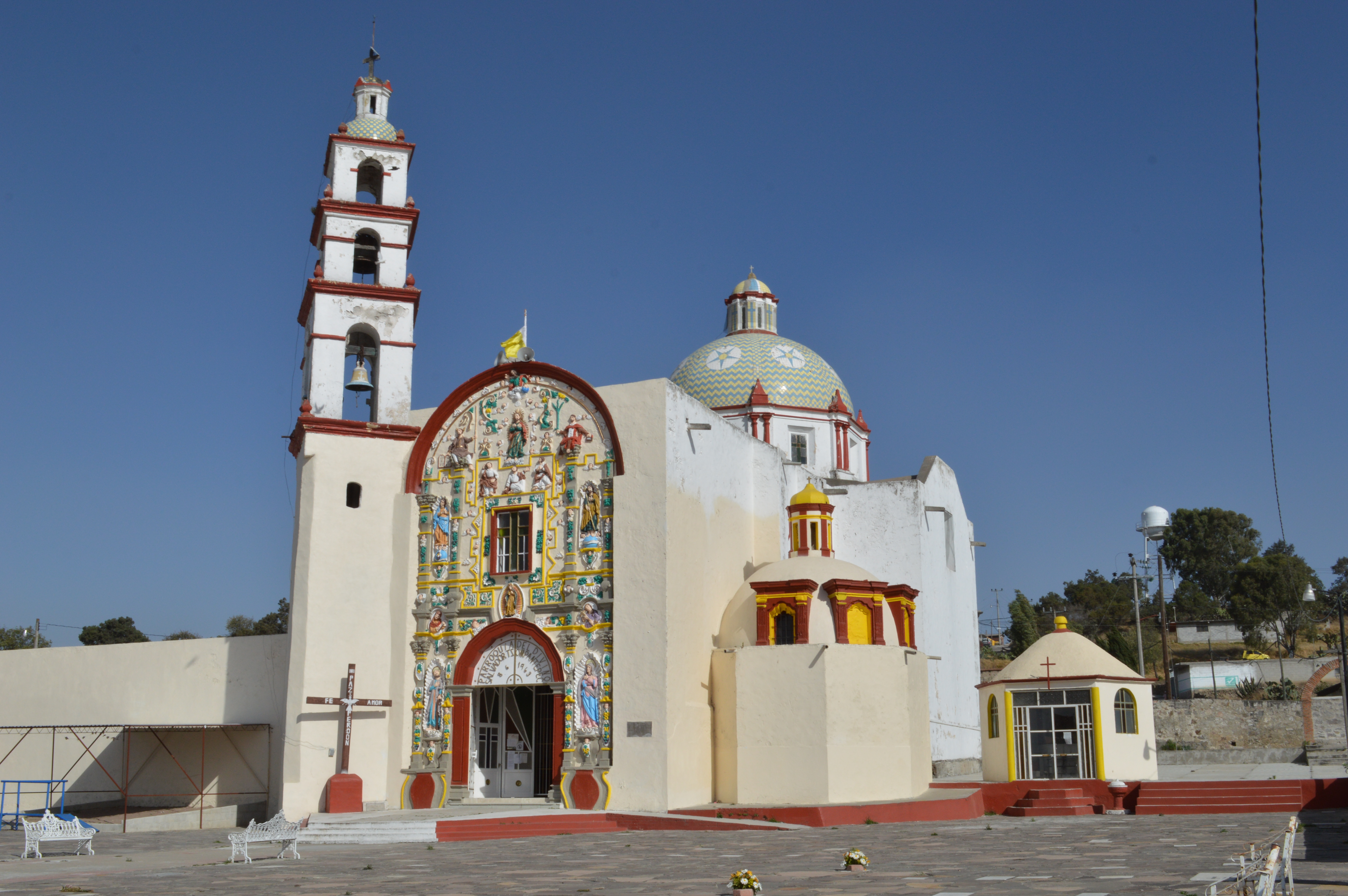 Divino Salvador Church in Tzompantepec, Tlaxcala, Mexico